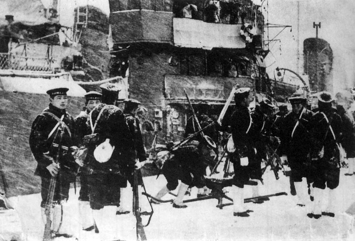 IJN Marines dispatched from Yokosuka to Tokyo because of the 2/26 Incident.